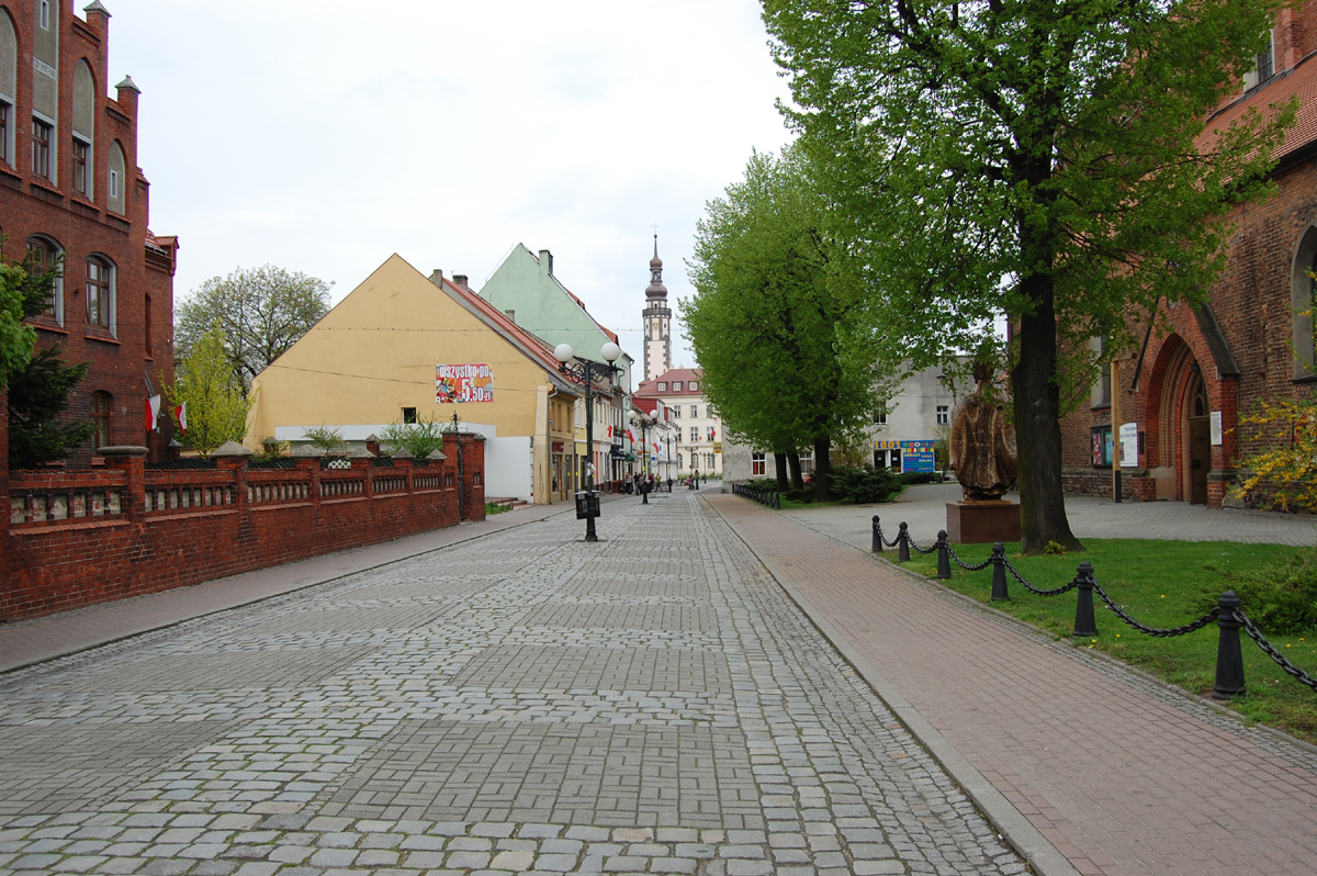 Warszawska Street in Grodkow